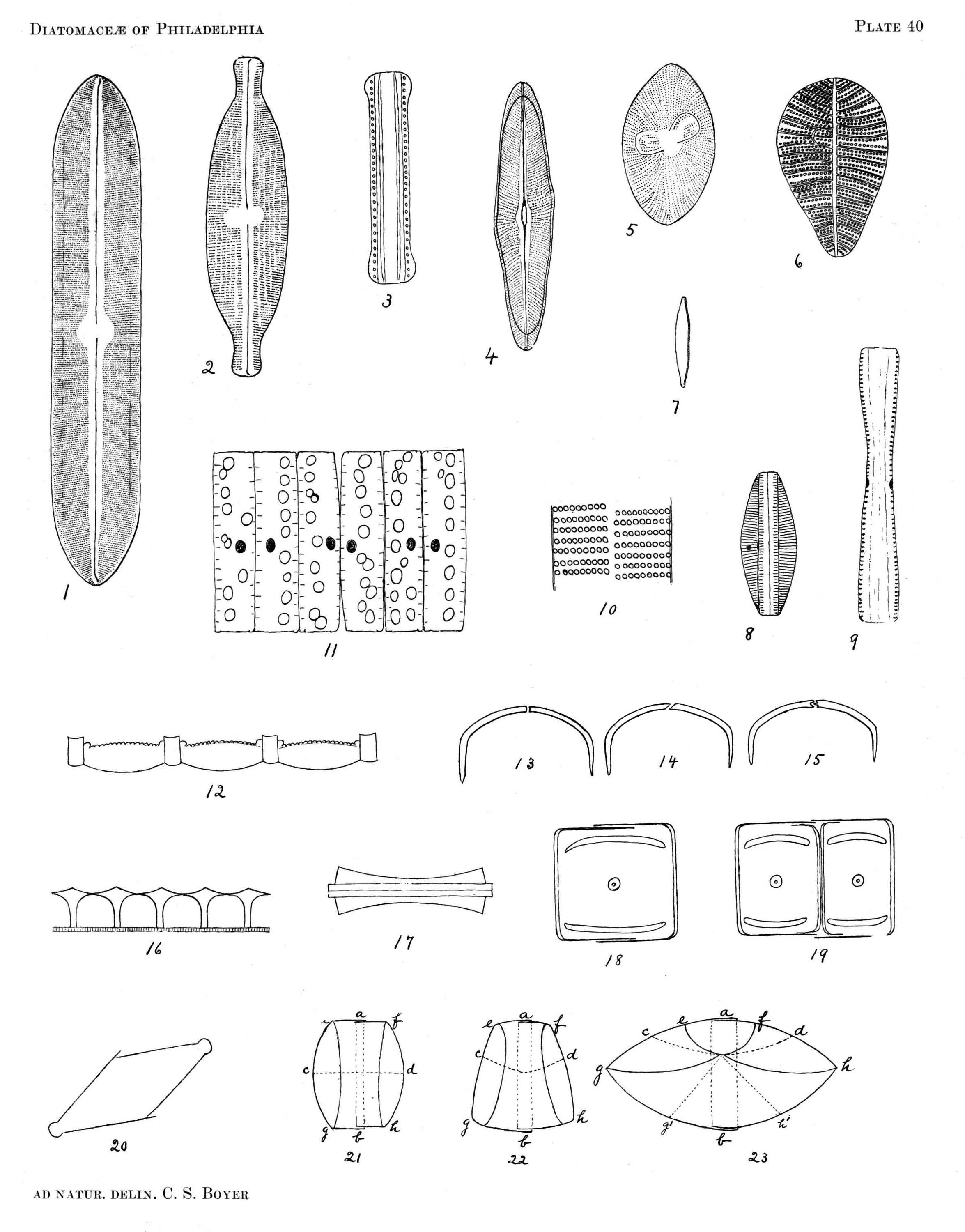 Illustration from Diatomaceae of Philadelphia and Vicinity. Original description follows: PLATE 40 Fig.1Caloneis liber (Wm. Sm.) Cl.2Anomœoneis sphærophora (Kuetz.) Cl.3Nitzschia spathulata Bréb.4Stauroneis ? abnormal5Navicula ? abnormal6Podocystis adriatica Kuetz.7Nitzschia dissipata (Kuetz.) Grun.8Cymbella ventricosa Kuetz. (zone view)9Navicula radiosa Kuetz. (zone view)10Detail of Rhabdonema arcuatum (Lyng.) Kuetz.11Diatoma anceps (Ehr.) Kirchn. (containing chromataphores)12Coscinodiscus asteromphalus Ehr. (trans. section, after Pelletan)13-14-15Transverse section (diagram) of Pinnularia showing straight, oblique and grooved raphes16Transverse section (diagram) of Biddulphia favus showing inner punctate stratum (after Deby)17Transverse (ideal) section of Surirella18-19Transverse (ideal) section of Pinnularia, before and after division20Transverse section of Nitzschia linearis (Ag.) Wm. Sm.21Transverse section (diagram) of Navicula22Transverse section (diagram) of Cymbella23Transverse section (diagram) of Amphora